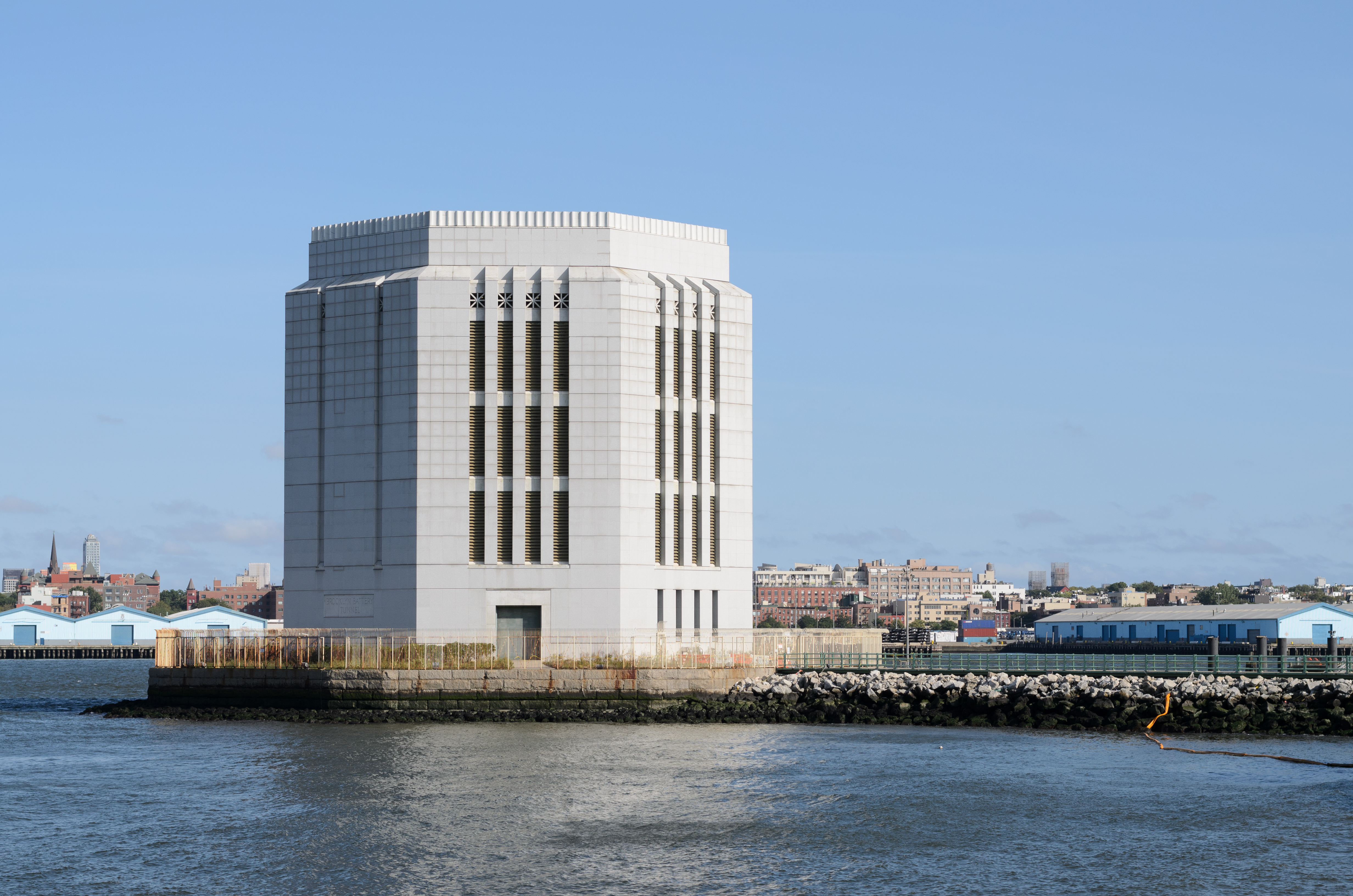 Brooklyn–Battery Tunnel vent shaft, Governors Island, New York City.